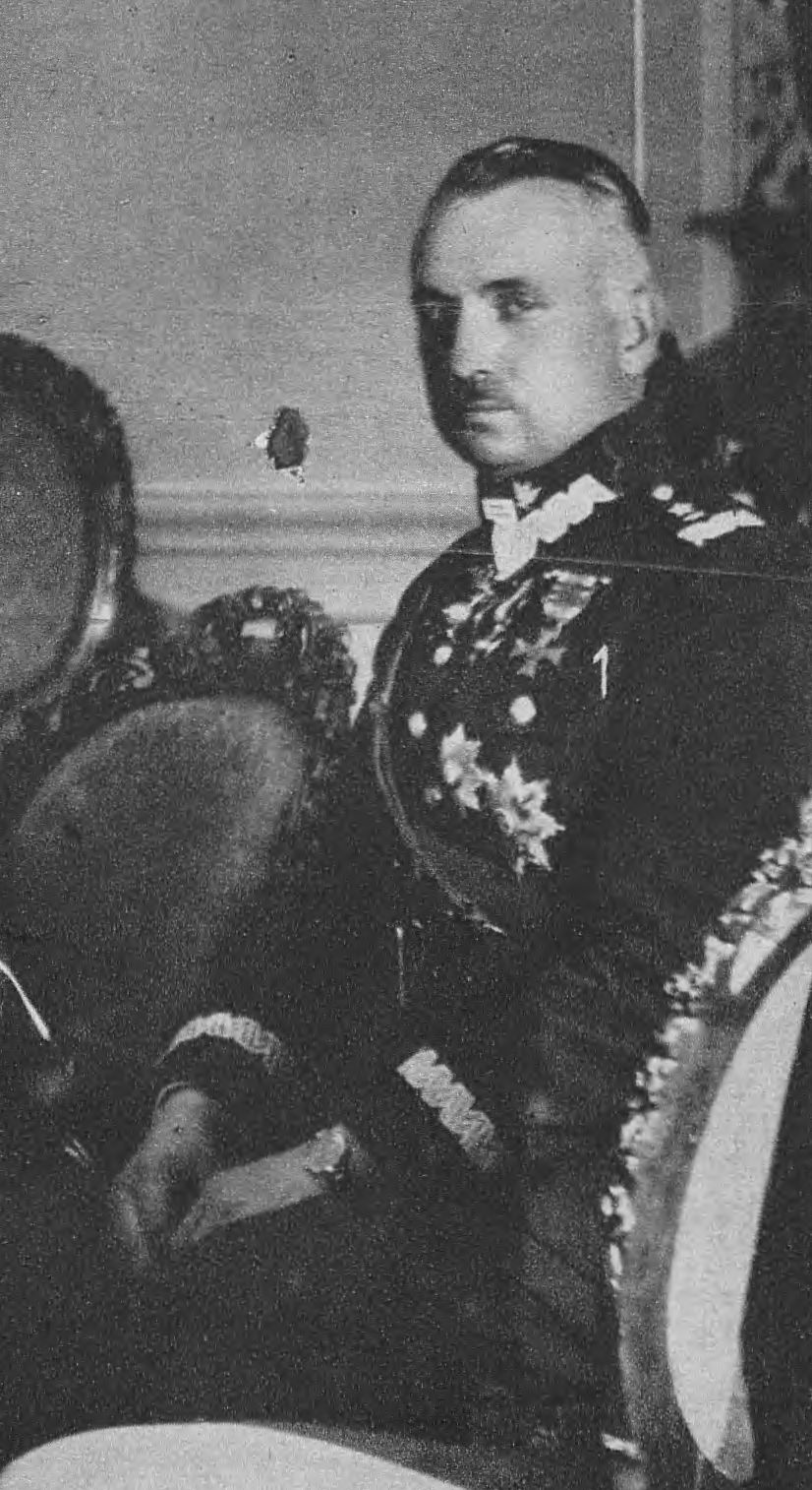 General Kazimierz Sosnkowski in 1928.